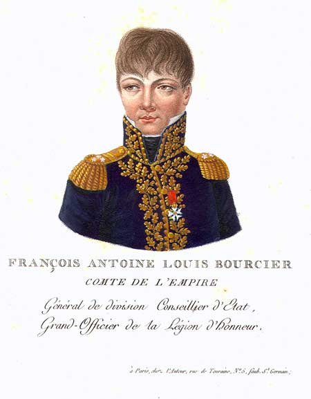 François Antoine Louis Bourcier (1760–1828), count of the empire, General of Division, Counsilor of State, Grand officer, Legion of Honor Handcolored copperplate print. Stipple engraving.